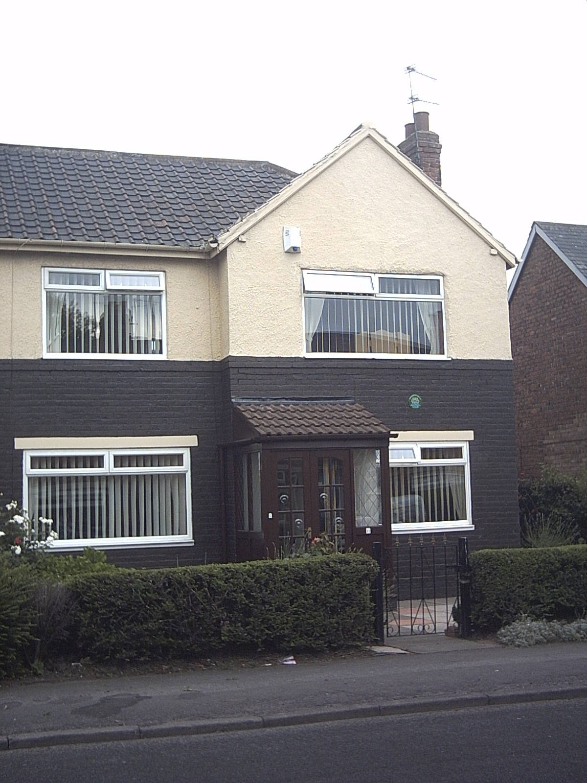 Brian Clough's house in Grove Hill, Middlesbrough. Taken by myself on 17th June 2006.